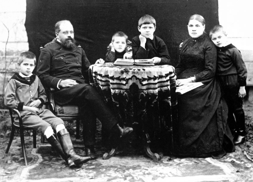 Photo of Vesnin brothers as children, ca. 1890. Left to right: Victor, Alexander (father), Alexander (bit out of focus), Leonid, Elizaveta (mother), Lidia (sister)